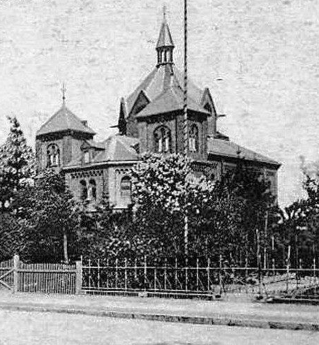 Synagogue of Schweidnitz now Świdnica in Poland. Build in 1877, destroyed by the nazis during Kristal nacht (1938)